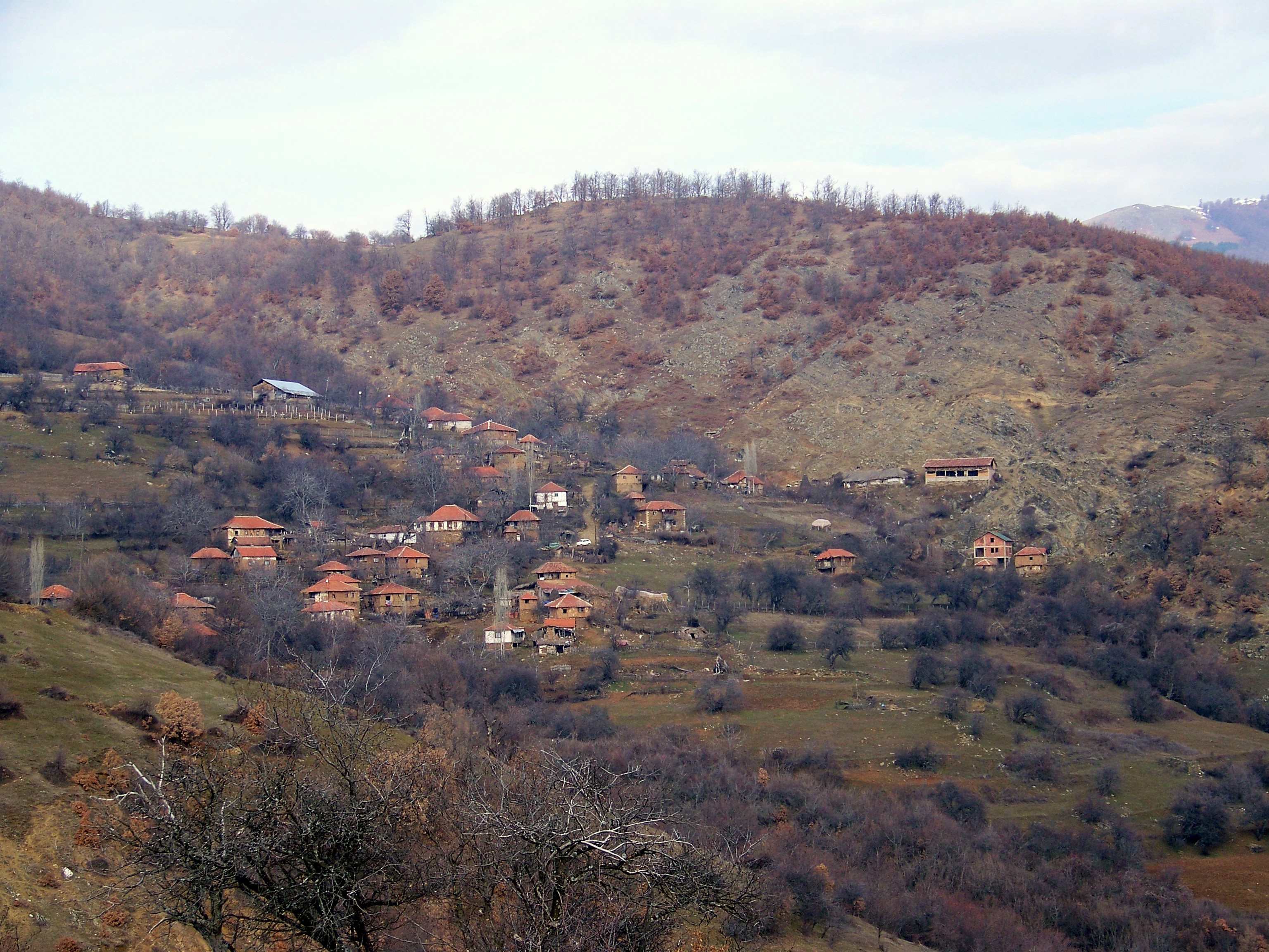 Village of Leshki, Kocani, Republic of Macedonia